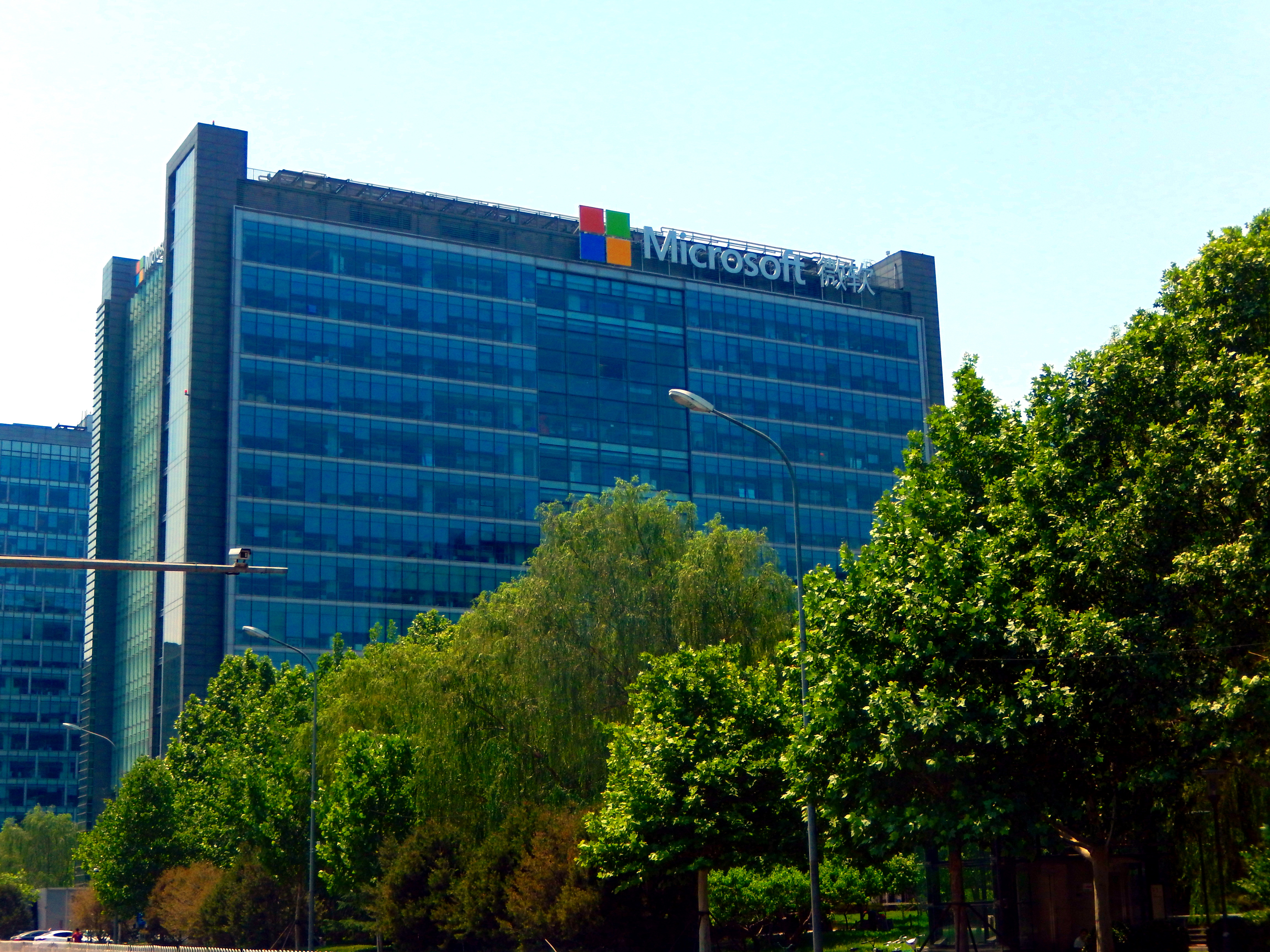 Microsoft Tower 2 in Zhongguancun, Haidian District, Beijing.